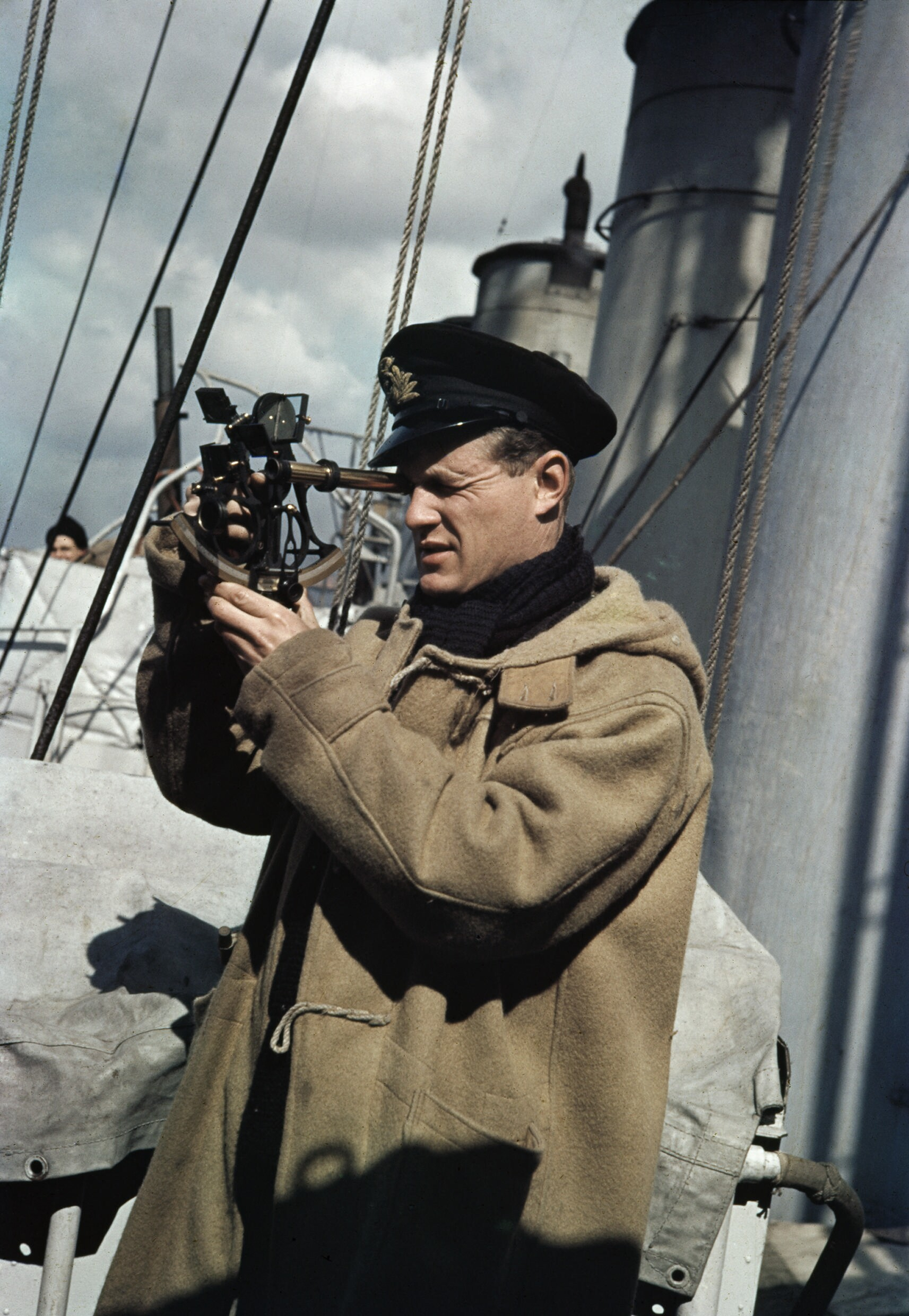 A Royal Navy officer using a sextant aboard a destroyer on convoy protection duties, 1942. A British Naval Officer with a sextant, aboard a former American destroyer employed on convoy protection duty by the Royal Navy.